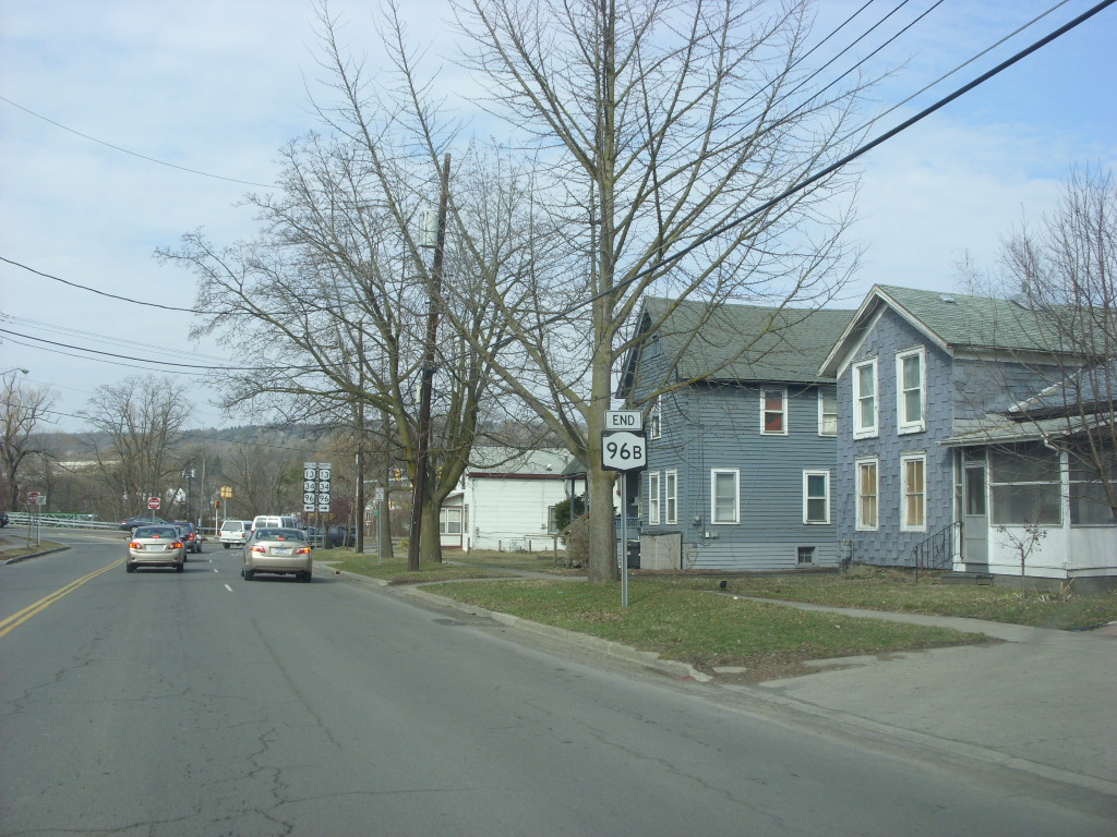 New York State Route 96B at its junction with New York State Route 13, 34 and 96 in Ithaca, New York.